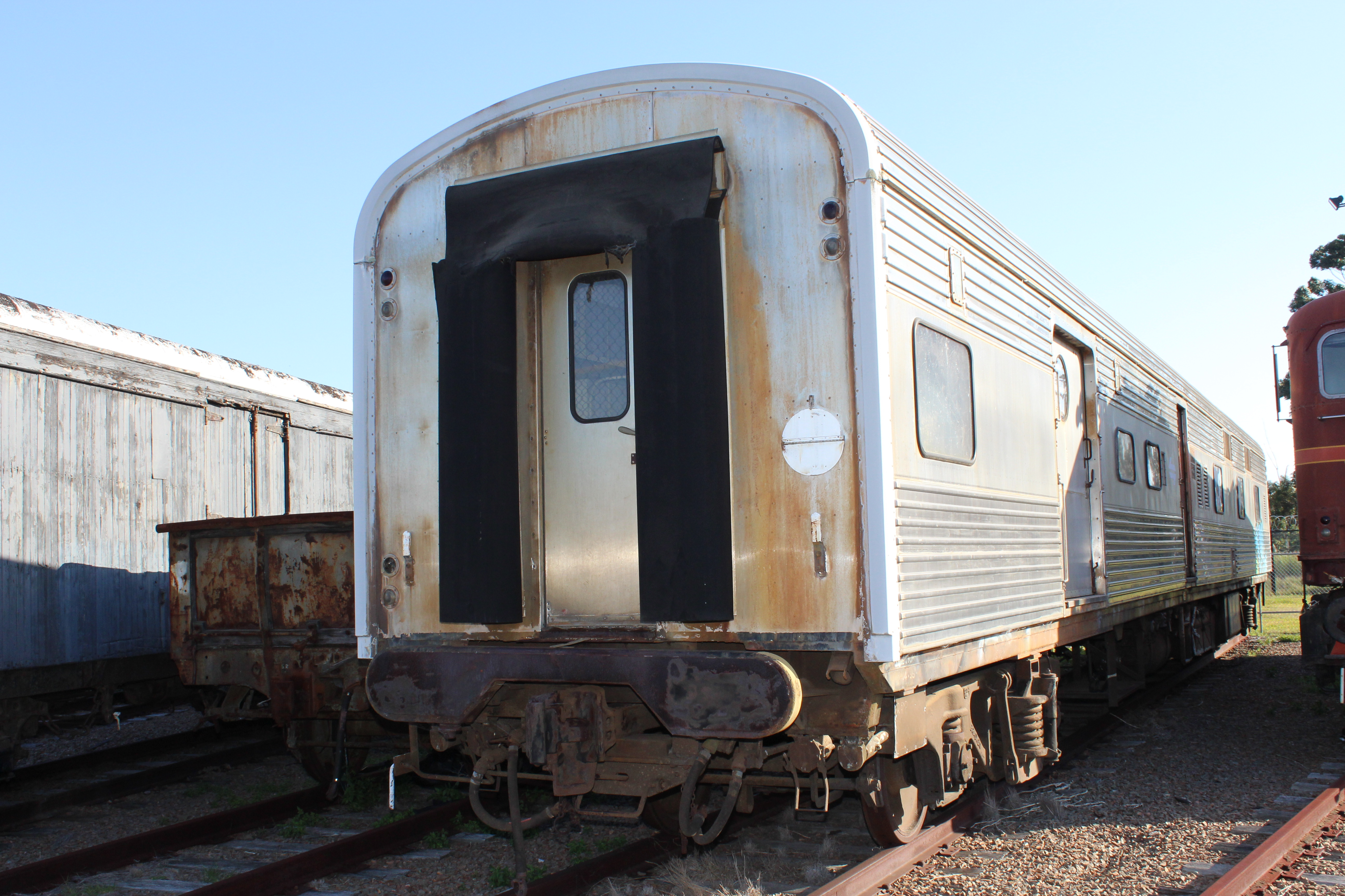 Preserved stainless steel power van PHA 2392 built by A.Goninan & Co. in 1984 stored out of use at Broadmeadow Loco Depot.